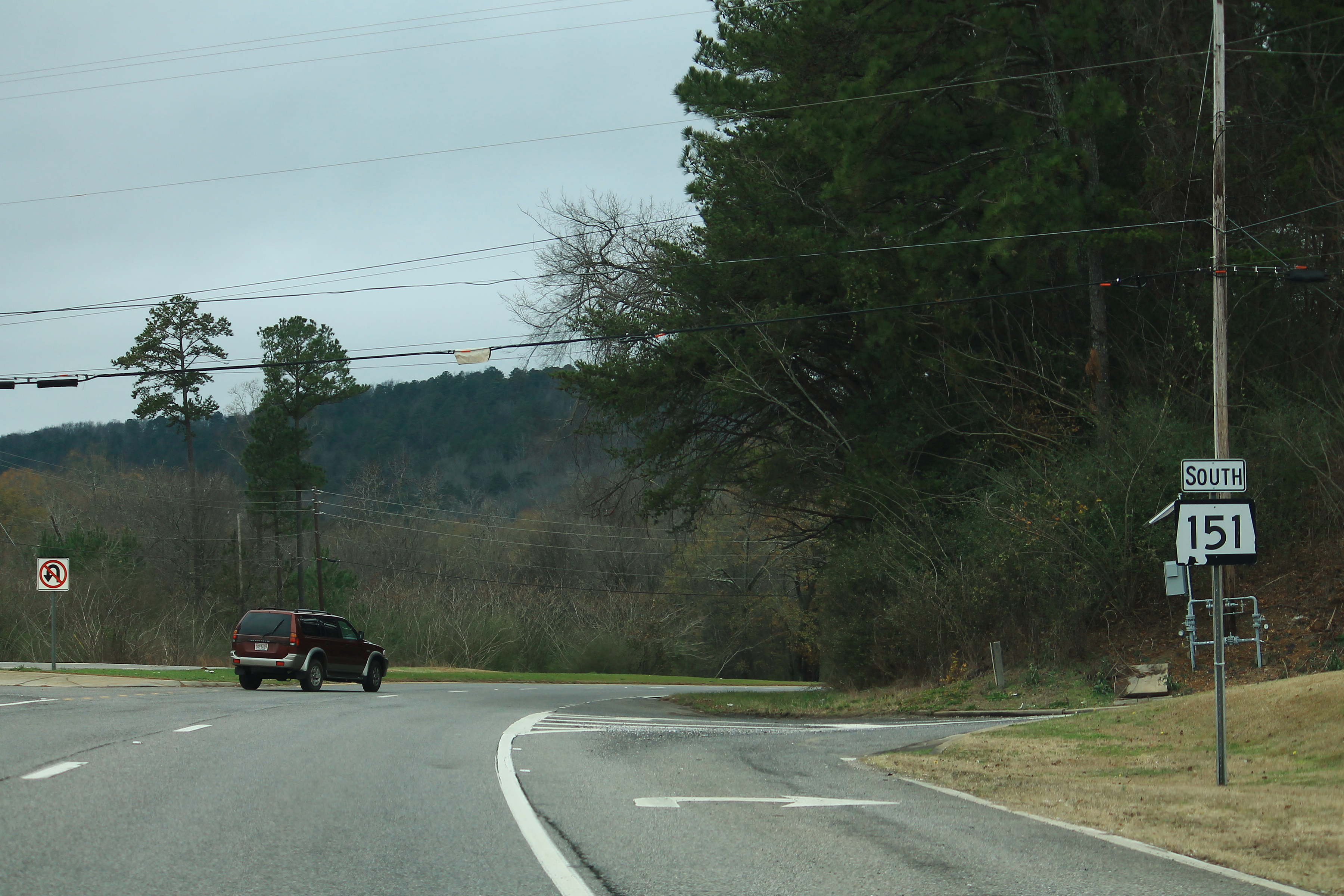 A sign for Alabama State Route 151, located within Pinson, Alabama. This is one of the shortest state-maintained routes in Alabama.